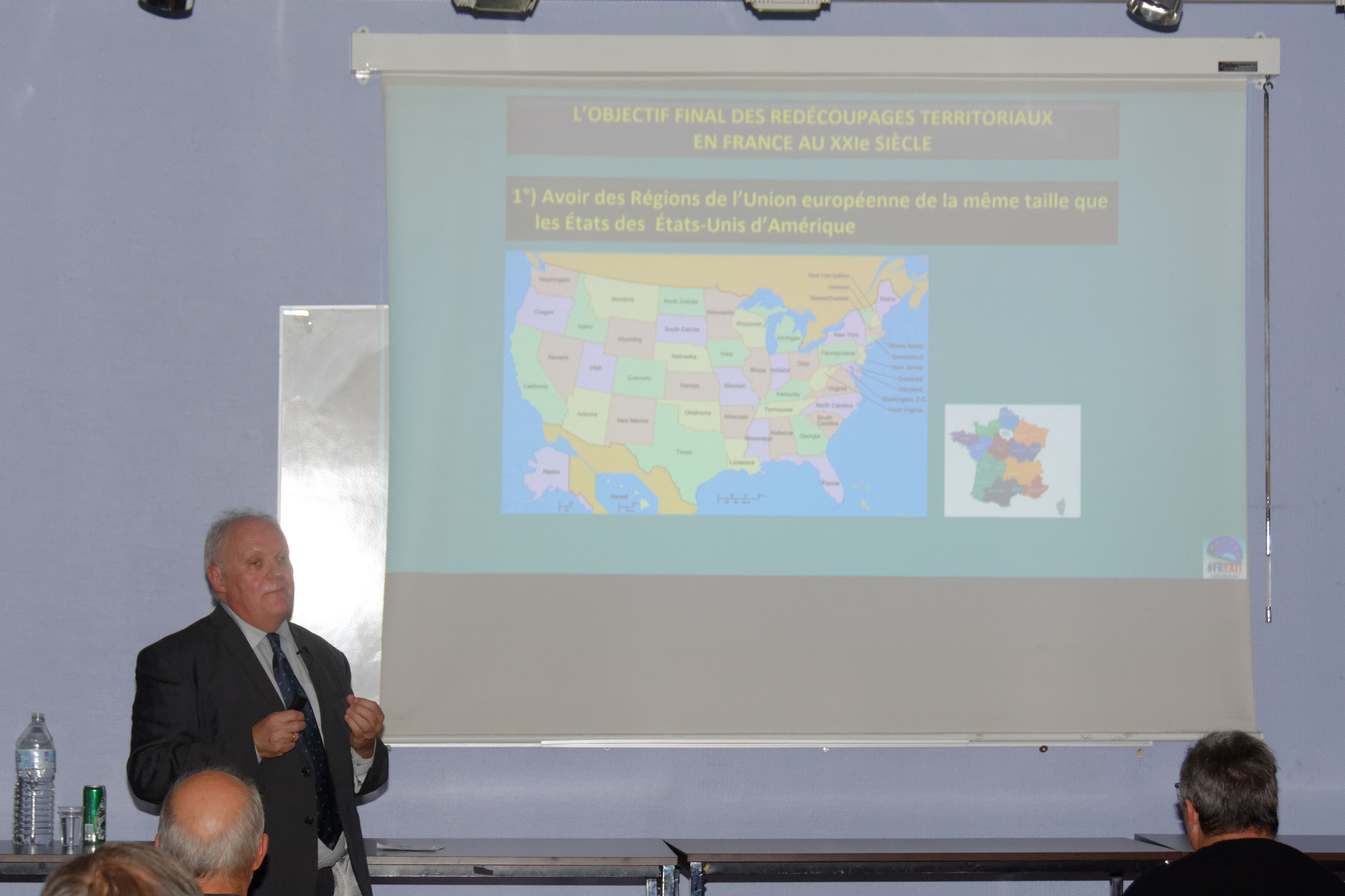 Personality rights warningAlthough this work is freely licensed or in the public domain, the person(s) shown may have rights that legally restrict certain re-uses unless those depicted consent to such uses. In these cases, a model release or other evidence of consent could protect you from infringement claims.